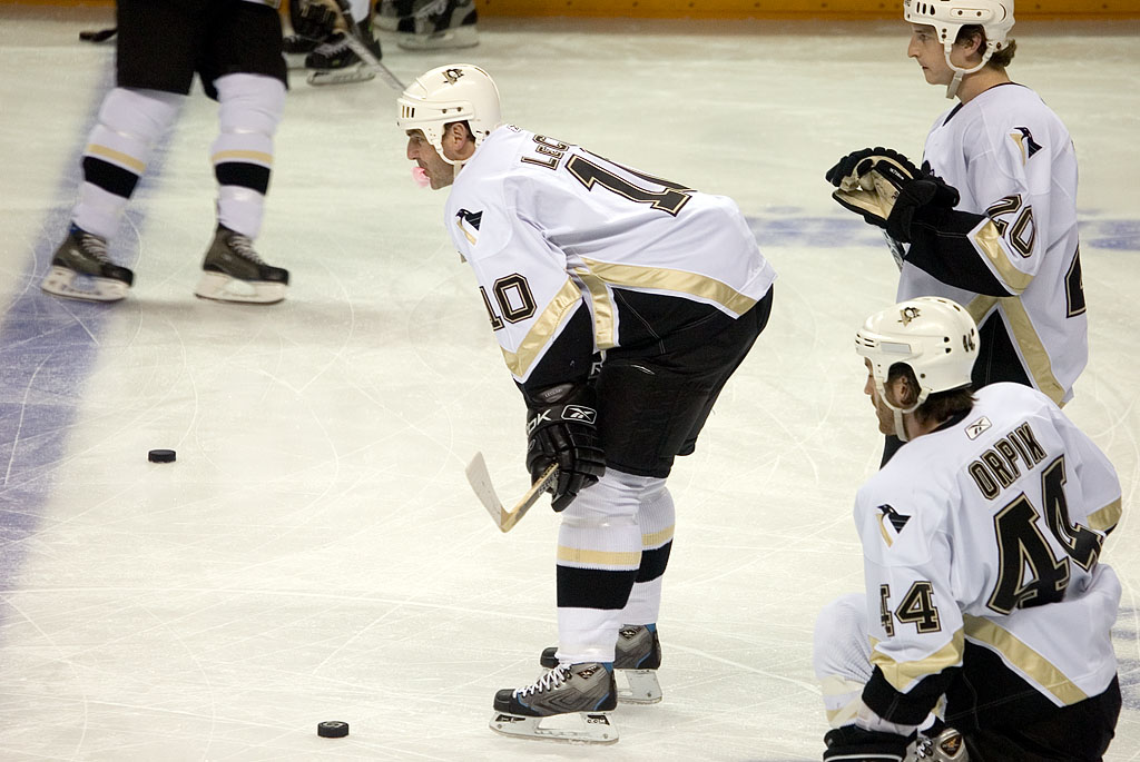 Pittsburgh Penguins vs. San Jose Sharks, #10 John Leclair, #20 Colby Armstrong and #44 Brooks Orpik